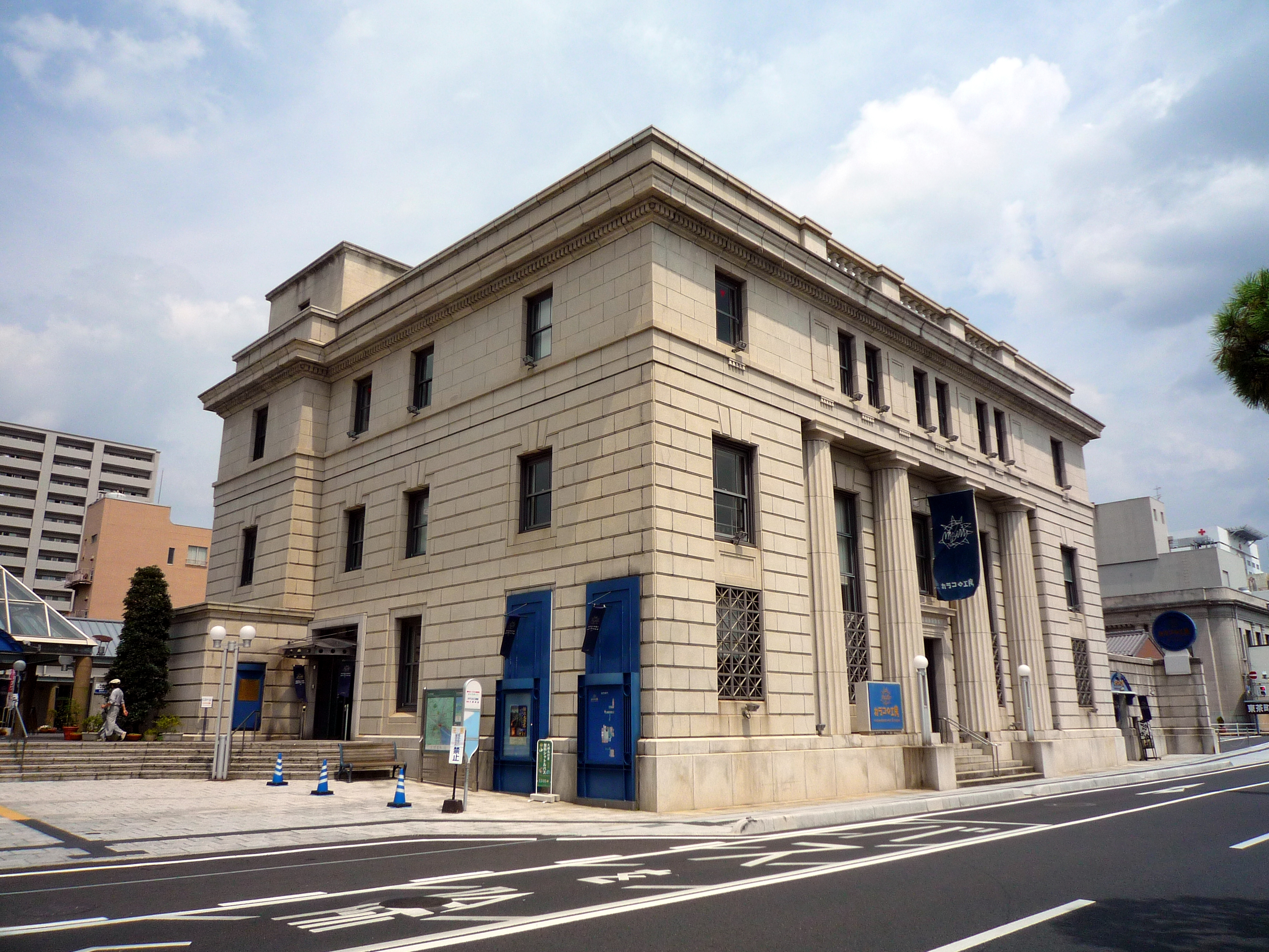 KARAKORO Art Studio (Matsue, Shimane Prefecture, Japan)